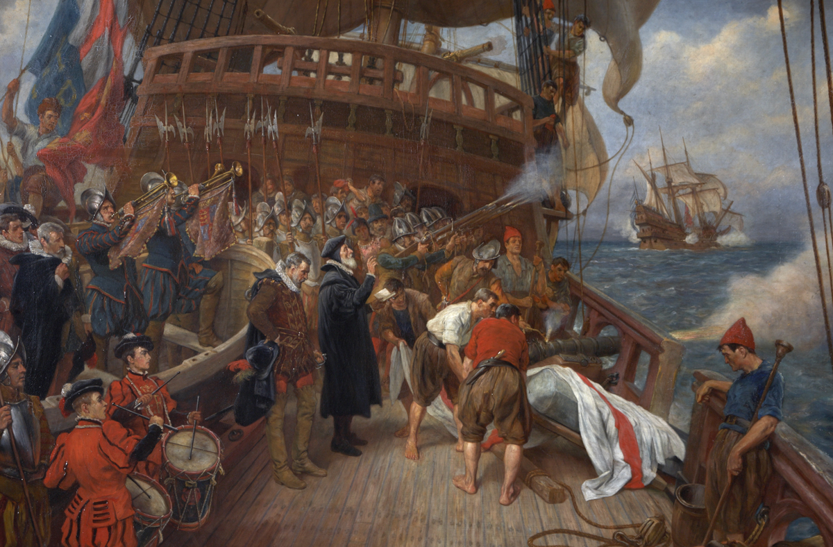 Davidson, Thomas; Burial of Admiral Drake; Plymouth City Council: Museum and Art Gallery